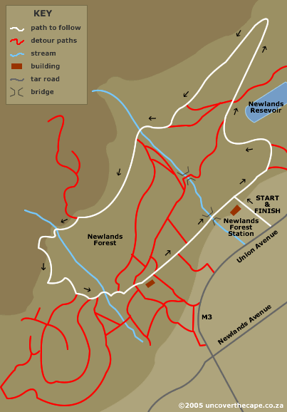 Forest Map.